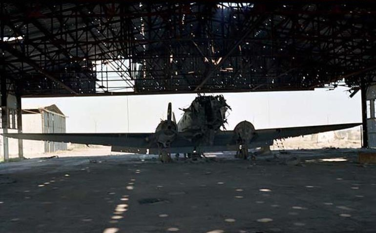 Destroyed Douglas C-47 Skytrain of Air force of Iran after Iraqi invasion. It is in Abadan airport.